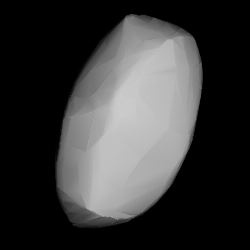 3D convex shape model of 4765 Wasserburg, computed using light curve inversion techniques. J. Hanuš, J. Ďurech, M. Brož, B. D. Warner (June 2011). "A study of asteroid pole-latitude distribution based on an extended set of shape models derived by the lightcurve inversion method". Astronomy and Astrophysics 530: A134. ISSN 0004-6361. arXiv